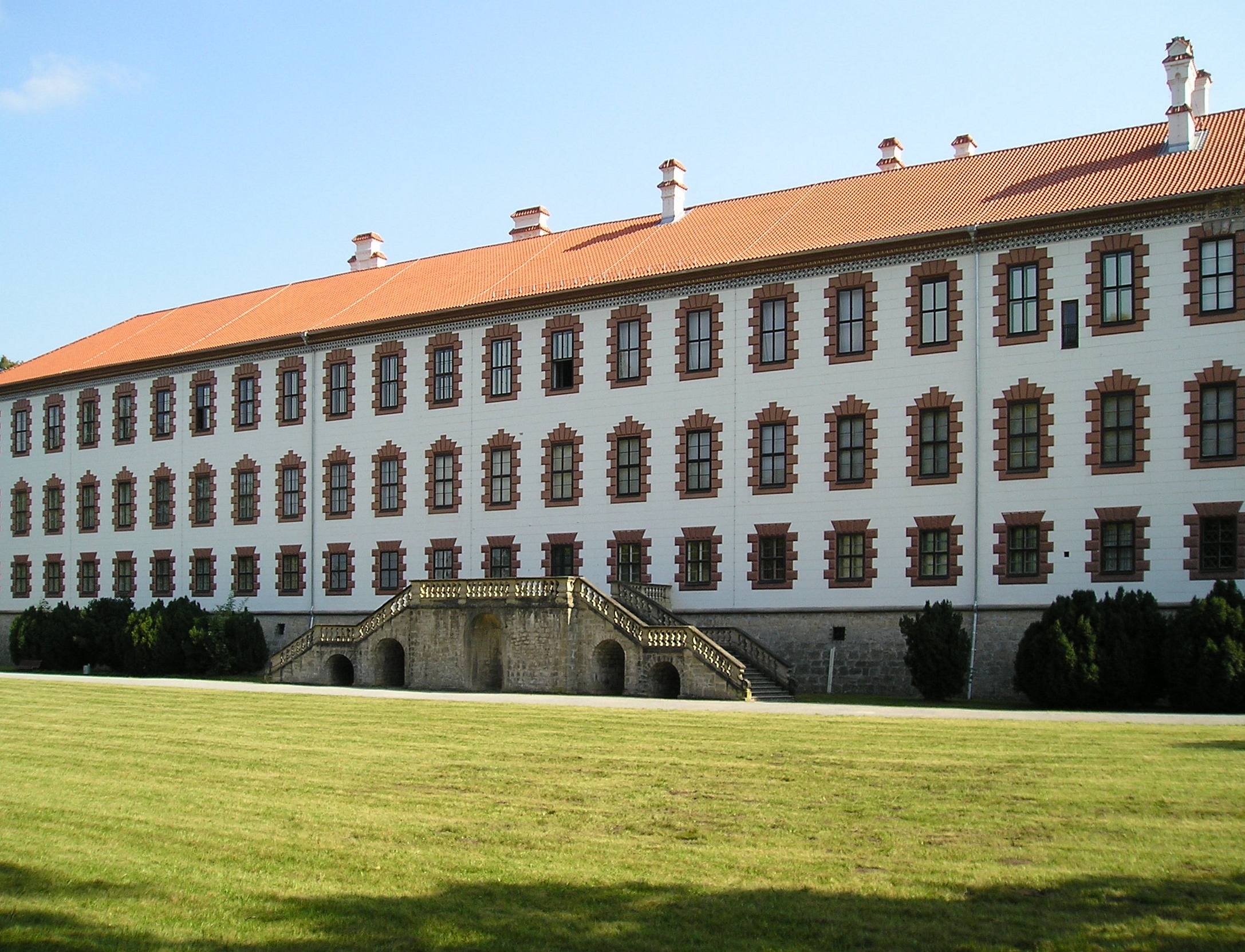 Castle Elisabethenburg in the city Meiningen, germany.